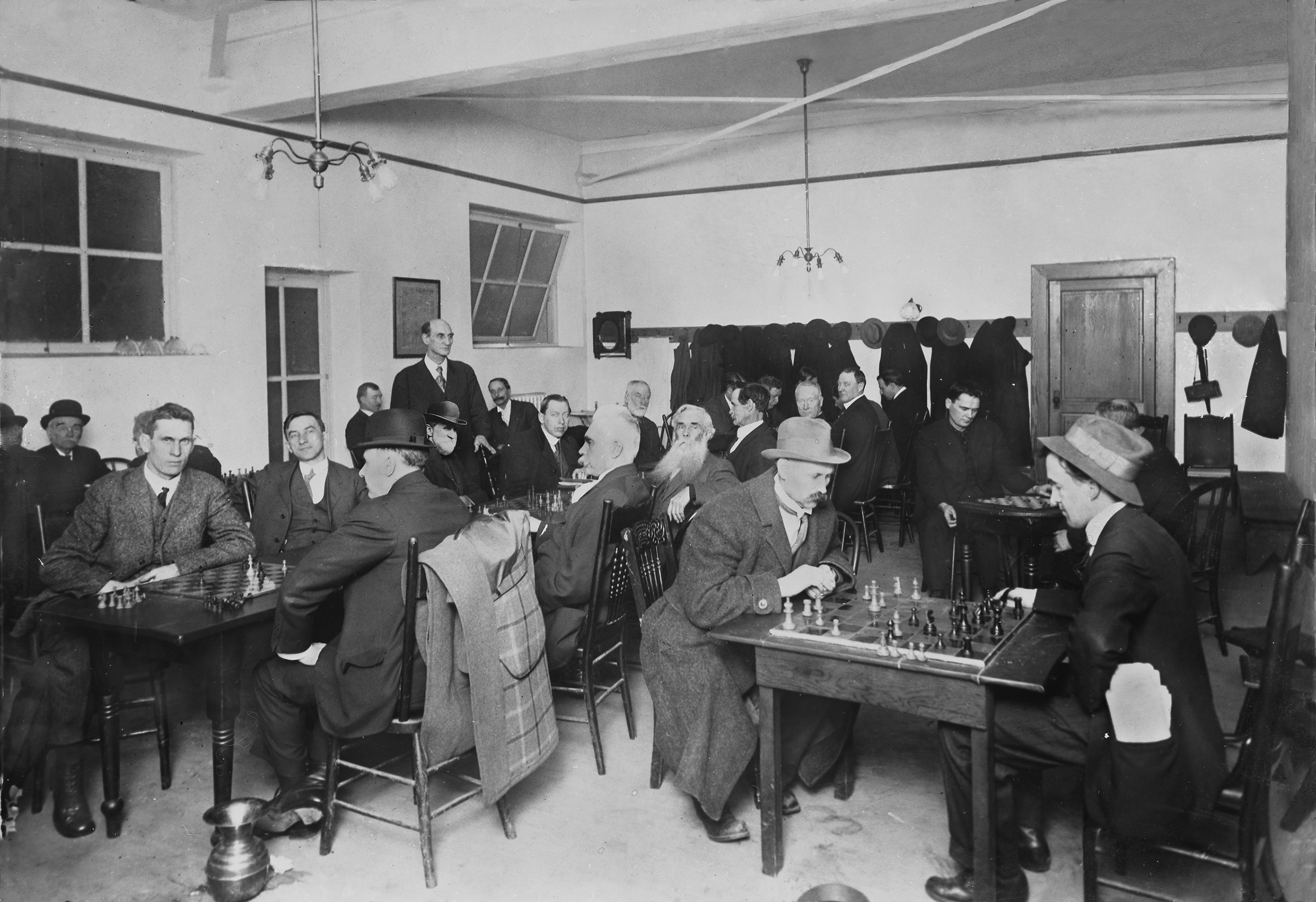 Portland Chess and Checkers Club in February 1914 commissioned by the club which was founded in 1911. This sepia photograph was restored in 2007 by Dr. Jonathan Ray Fortune and Barbara Fortune